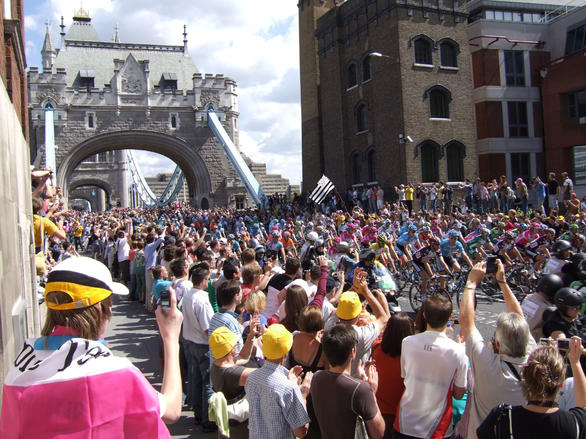 Tour de France 2007 passes over Tower Bridge, London